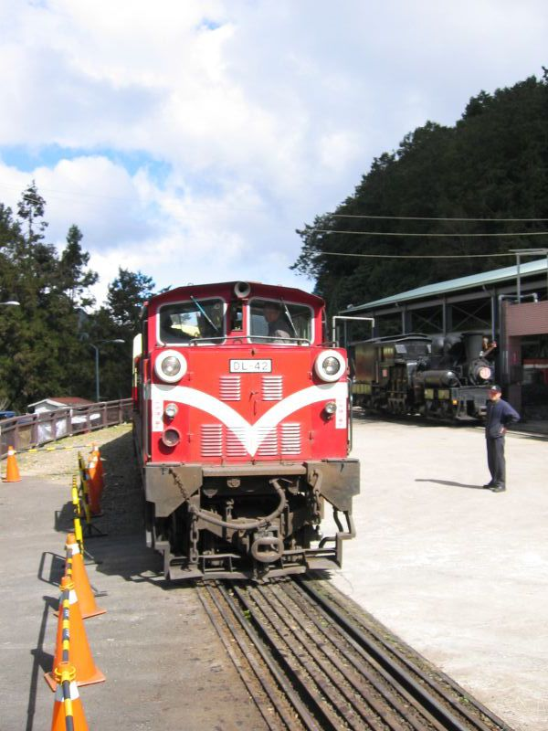 Alishan Forest Railway Diesel locomotive DL42 阿里山森林鐵路柴油機車DL42